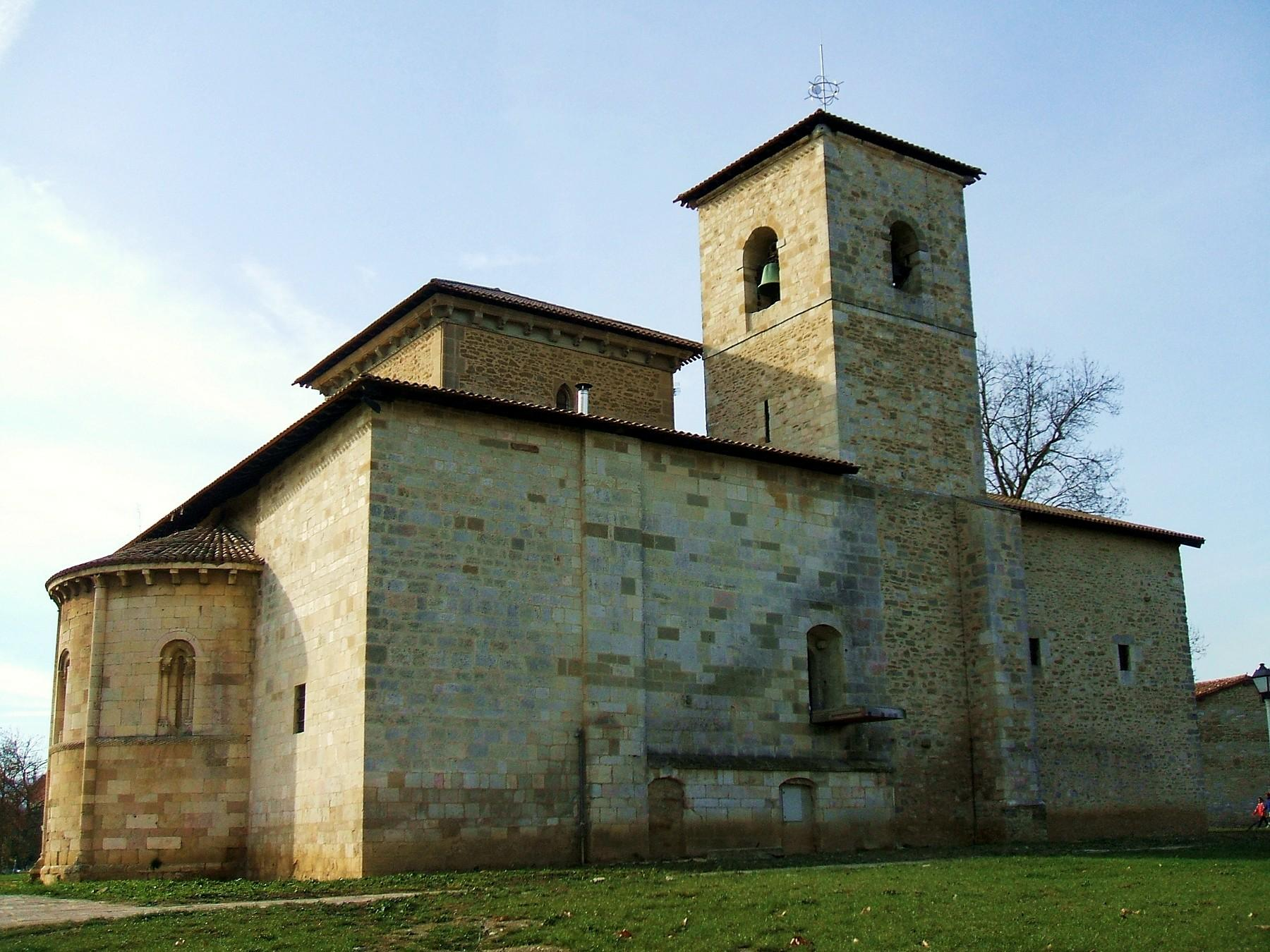 Basílica de San Prudencio de Armentia, Vitoria-Gasteiz (País Vasco, España)